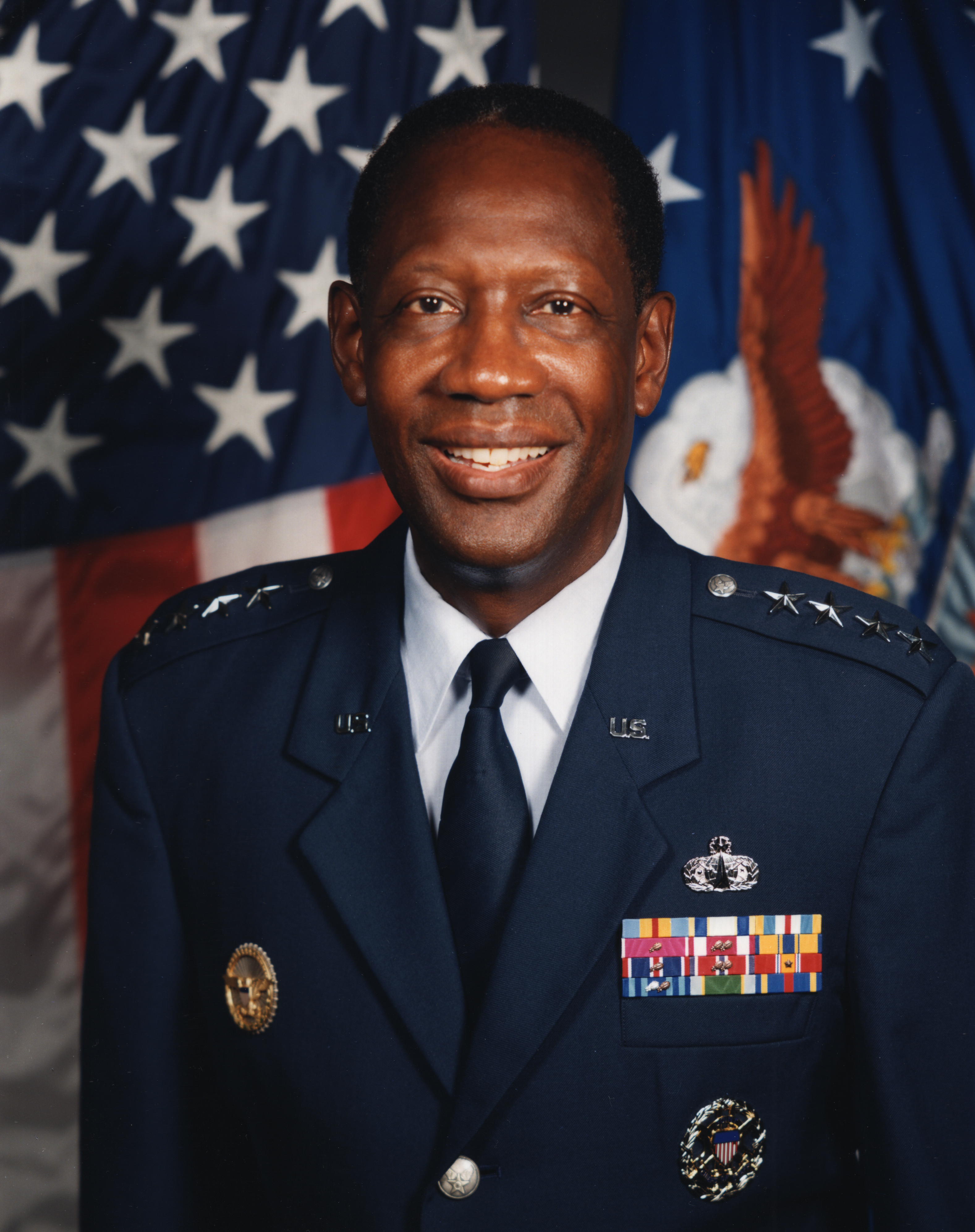 Gen. Lester L. Lyles, Commander, Air Force Materiel Command, Wright-Patterson Air Force Base, Ohio.